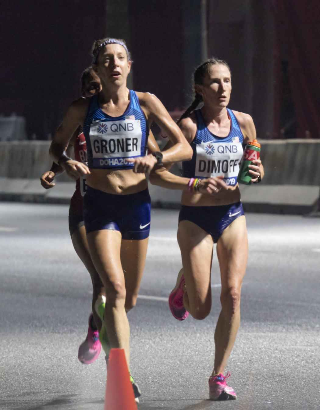 Women's marathon at the 2019 World Athletics Championships in Doha.